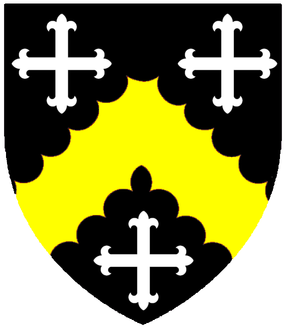 Shield of arms of The Lord Kenyon